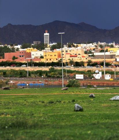 Great atmosphere in the city